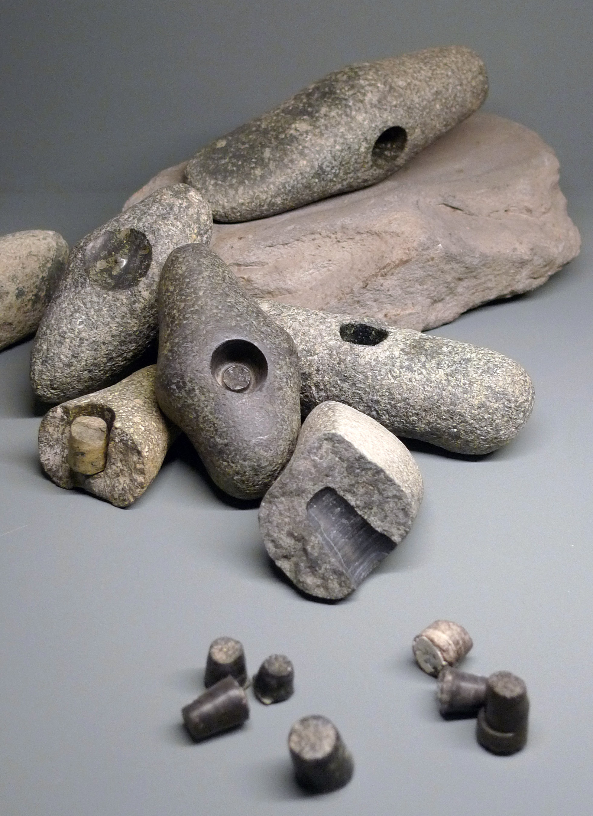 A stone axe in the second of various stages of manufacture. The stone heads are from the Neolithic settlement of Vinelz on Lake Biel, Switzerland, c. 2700 BC.